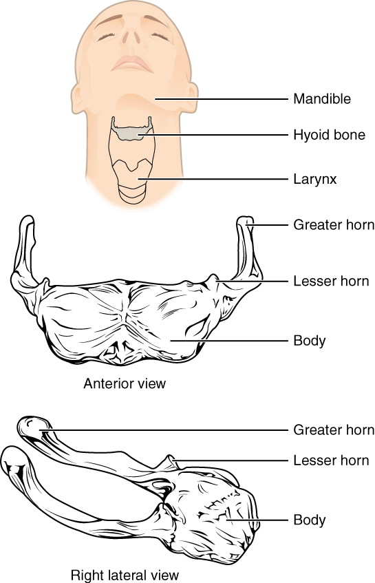 Illustration from Anatomy & Physiology, Connexions Web site. Jun 19, 2013.